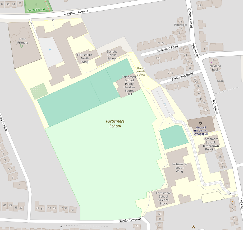 Site of Fortismere School in Muswell Hill, and other schools in the neighbourhood.